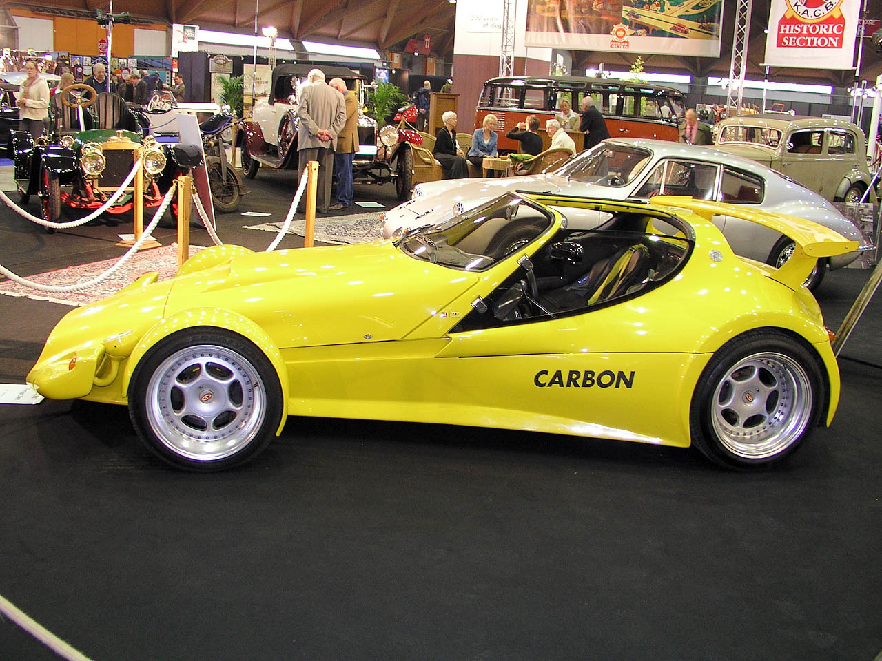 Sports car with 300 hp Cosworth engine made in small numbers by Tony Gillet in Gembloux, Belgium; right side view. Though identified as a 2005 model by the sign in front of the car its actually a Mk 1 model from 1994.